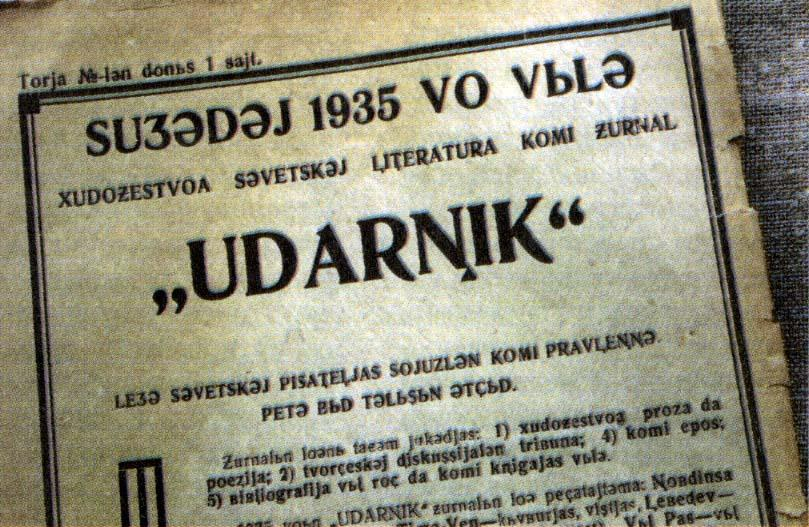 First page of "Udarnik" magazine (Komi language, 1935)